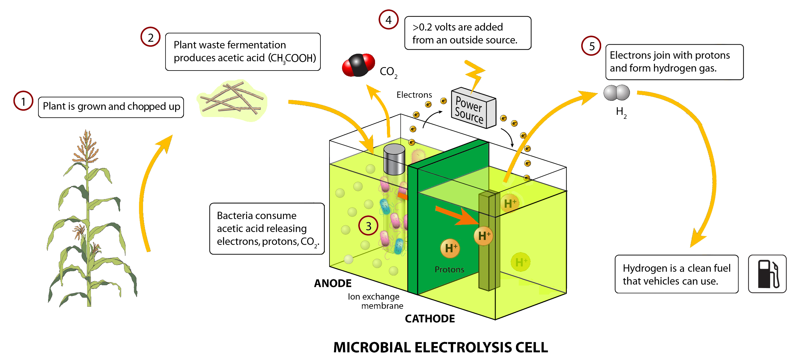 A schematic of a microbial electrolysis cell (MFC). Instructions on making a MFC can be found at